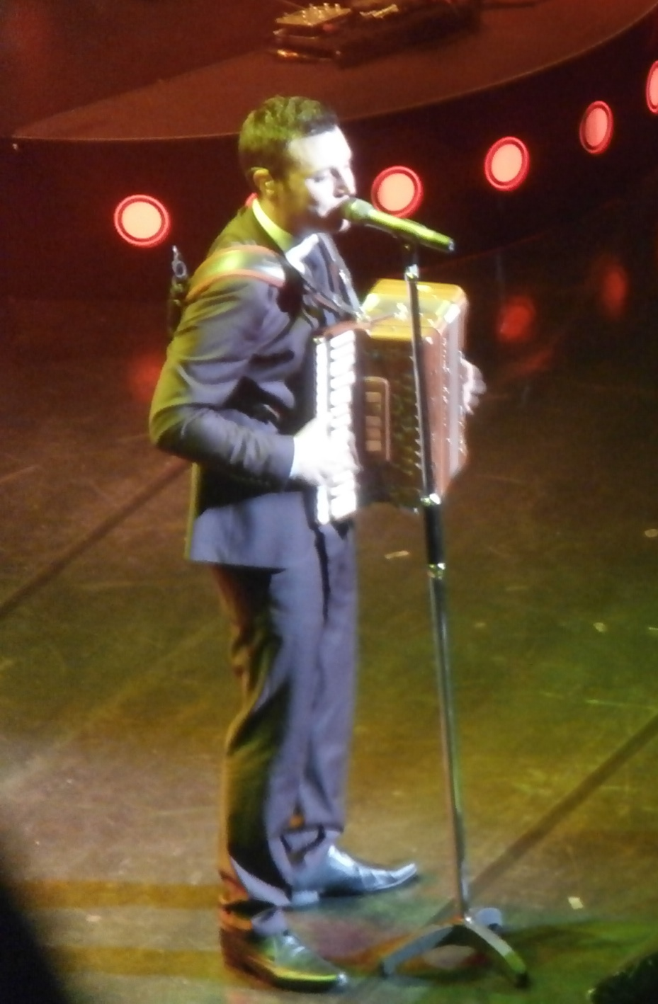 Nathan Carter. Royal Concert Hall, Glasgow. The highlight of his career on the day after Scottish Referendum Day, September 18,2014